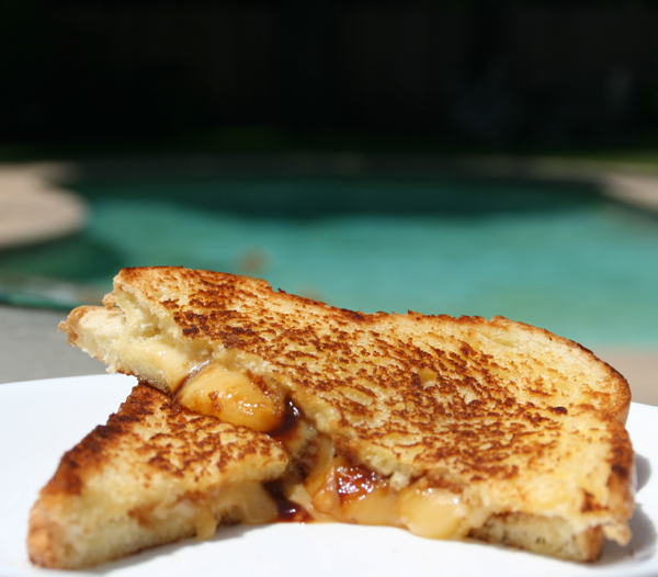 A grilled cheese sandwich, made with Gouda, Hoisin sauce and hot Asian mustard.